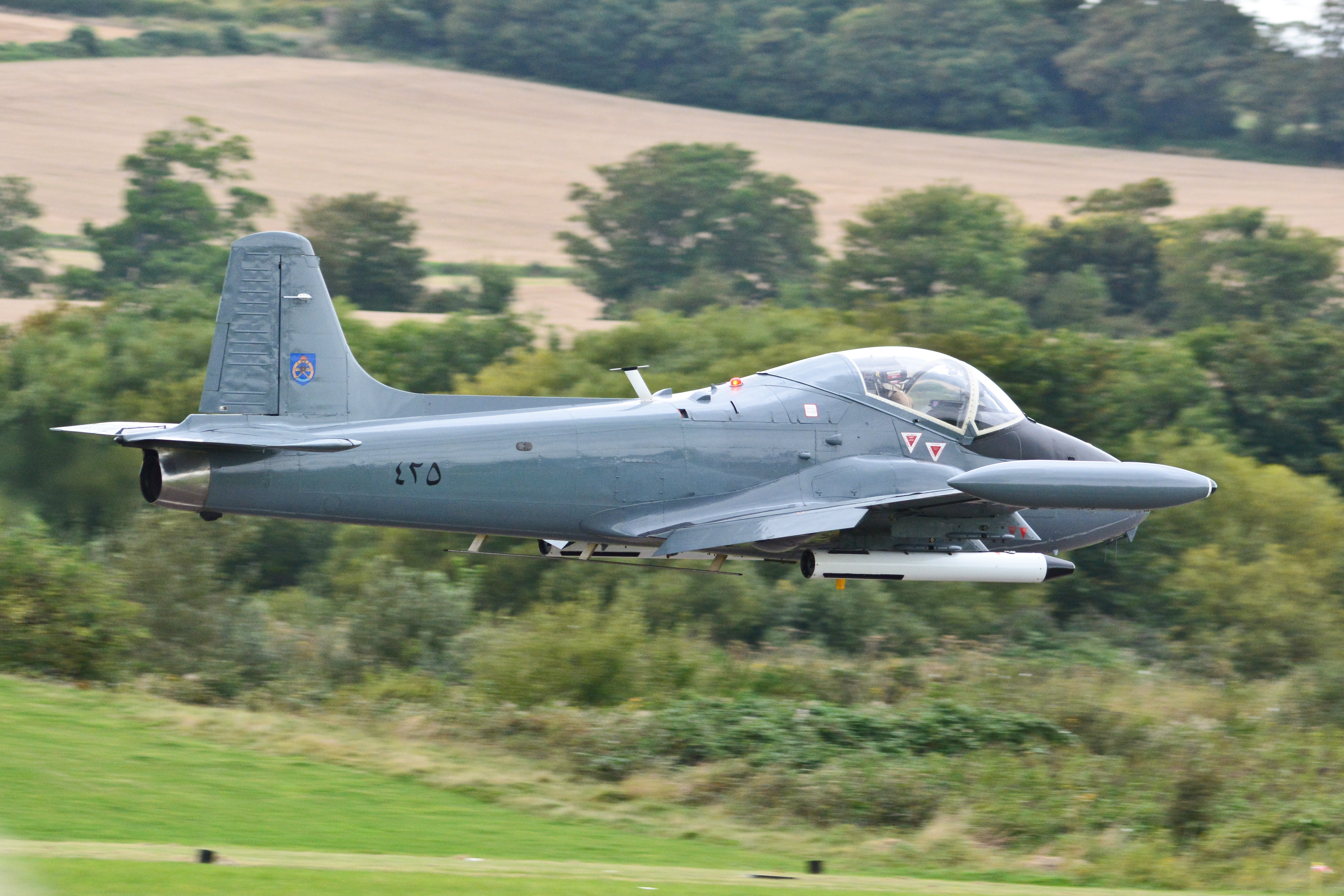 BAC Strikemaster, Saturday 30th August 2014